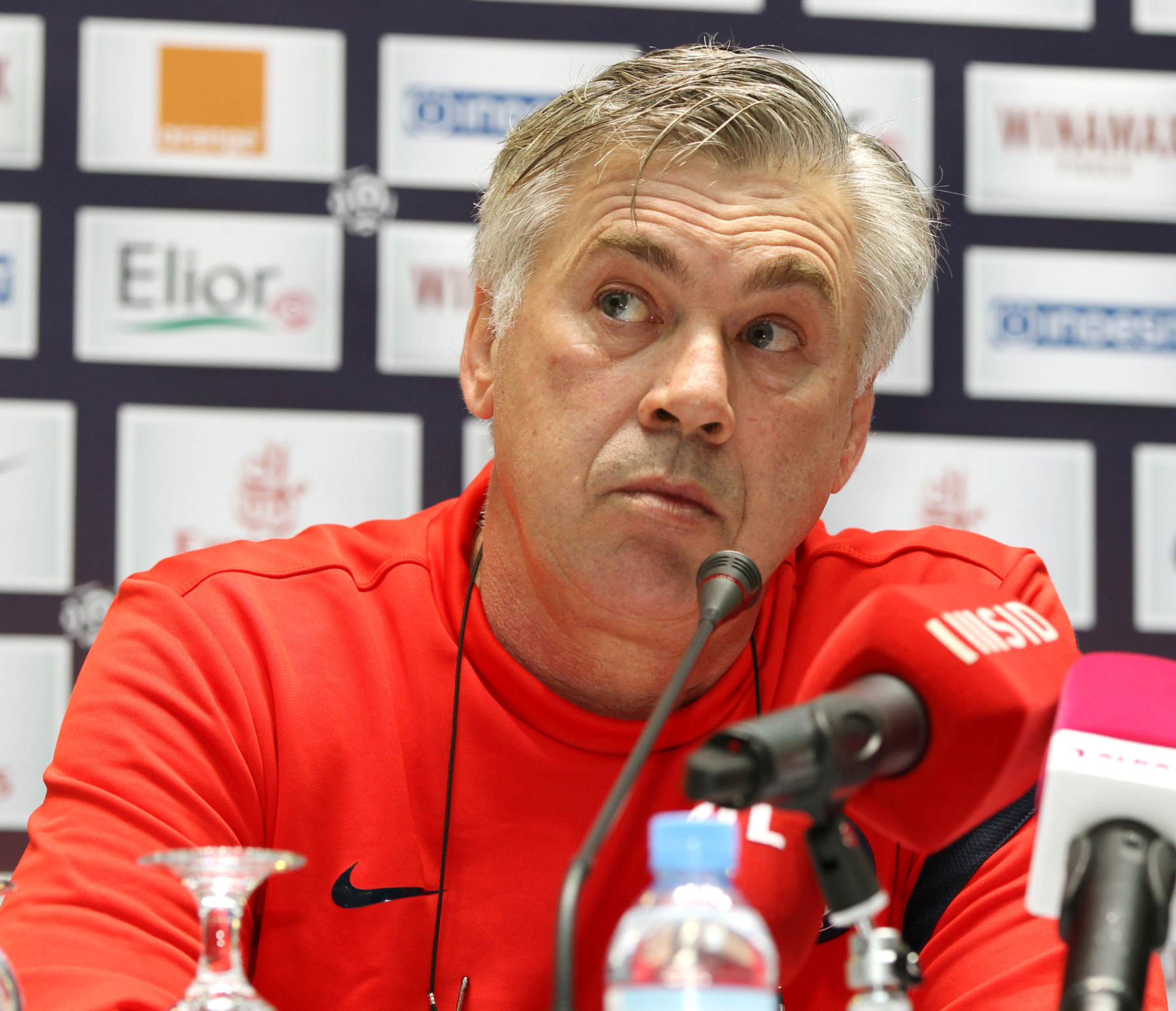 Paris St. Germain coach Carlo Ancelotti attends a Press conference in Doha.